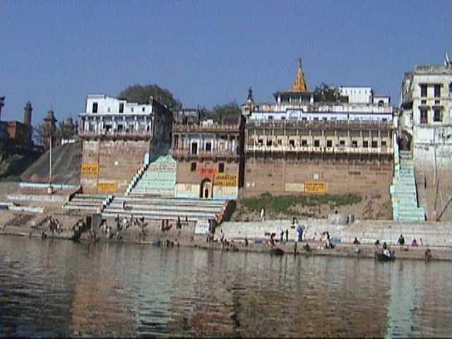 See Varanasi Development Cooperation Handbook/Stories/Responsible Development - Varanasi The Varanasi Heritage Dossier Kautilya Society Play media Vrinda Dar - How we got involved in heritage protection of Varanasi